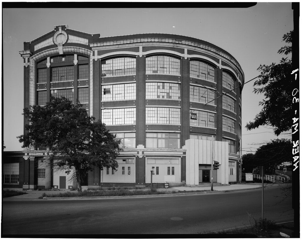 Ford Assembly Plant, 640 Memorial Drive, Massachusetts, USA. Built 1913. Historic American Engineering Record (Library of Congress), Library of Congress, Prints and Photograph Division, Washington, D.C. 20540 USA.